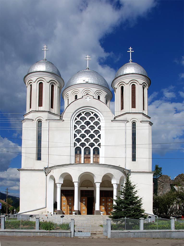 Church in the center of Rodna